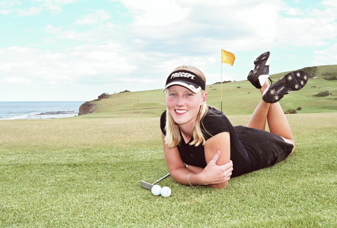 Katy Jarochowicz in 2016